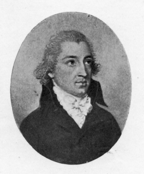 James Austen (176-1819), brother of Jane Austen